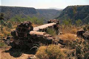 Richinbar Mine over the Agua Fria Canyon in Agua Fria National Monument, Arizona